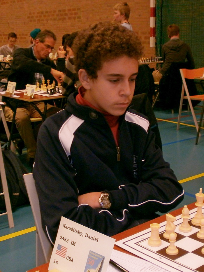 Daniel Naroditsky playing in the Groningen Chess Festival 2012 in Groningen (the Netherlands)